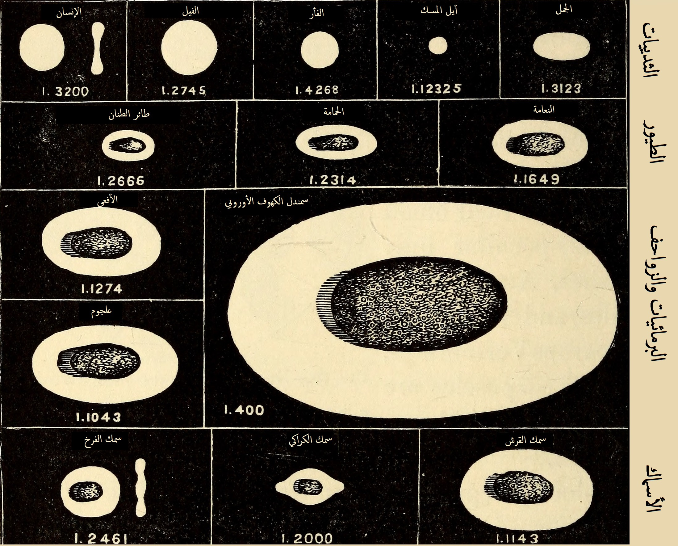 1= Title: Comparative zoology, structural and systematic : for use in schools and colleges Year: 1883 (1880s) Authors: Orton, James, 1830-1877; Birge, E. A. (Edward Asahel), 1851-1950 Subjects: Zoology; Anatomy, Comparative; Physiology, Comparative Publisher: New York : Harper & Bros. Text Appearing Before Image: 100 COMPARATIVE ZOOLOGY. ular, or sac-like, in all animals; but they are constantly changing. The form of the red disks is more permanent, although they are soft and elastic, so that they squeeze MAN â¢ I I. 3200 ELEPHANT' â¢ 1.274 5 MOUSE â¢ 1.4268 MUSK DEER 112325 HUMMING BIRD 1.2666 SNAKE 1 â PIGEON ^^^^ f.2314 OTEUS ^^MHHI Text Appearing After Image: Fig. 65.âComparative Size and Shape of the red Corpuscles of various Animals. through very narrow passages. They are oval, circular, or angular, in Fishes; oval in Reptiles, Birds, and the Camel tribe ; and circular in the rest of Mammals. They are double-convex when nucleated, and double-concave when circular and not nucleated. Blood is always heavier than water; but is thinner in cold-blooded than in warm-blooded animals, in herbivores than in carnivores. The blood of Birds, which is the hot- test known, being 10Â° higher than Man's, is richest in red corpuscles. In Man, they constitute about one half the mass of blood. The white globules are far less numerous than the red; they are relatively more abundant in venous than arterial blood, in the sickly and ill-fed than in the healthy and vigorous, in the lower Vertebrates than in Birds and Mammals. Their number is subject to great